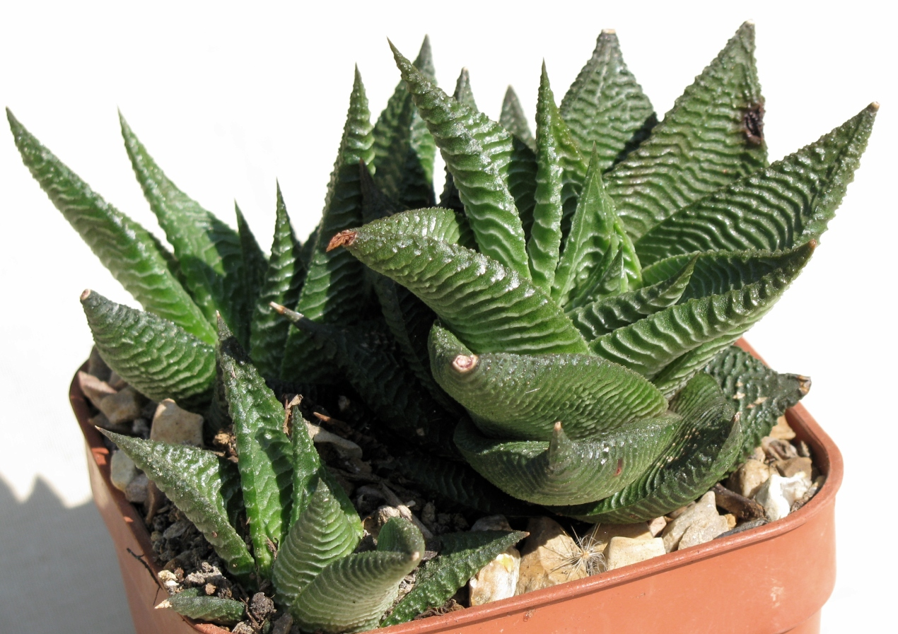 Haworthiopsis limifolia (syn. Haworthia limifolia)